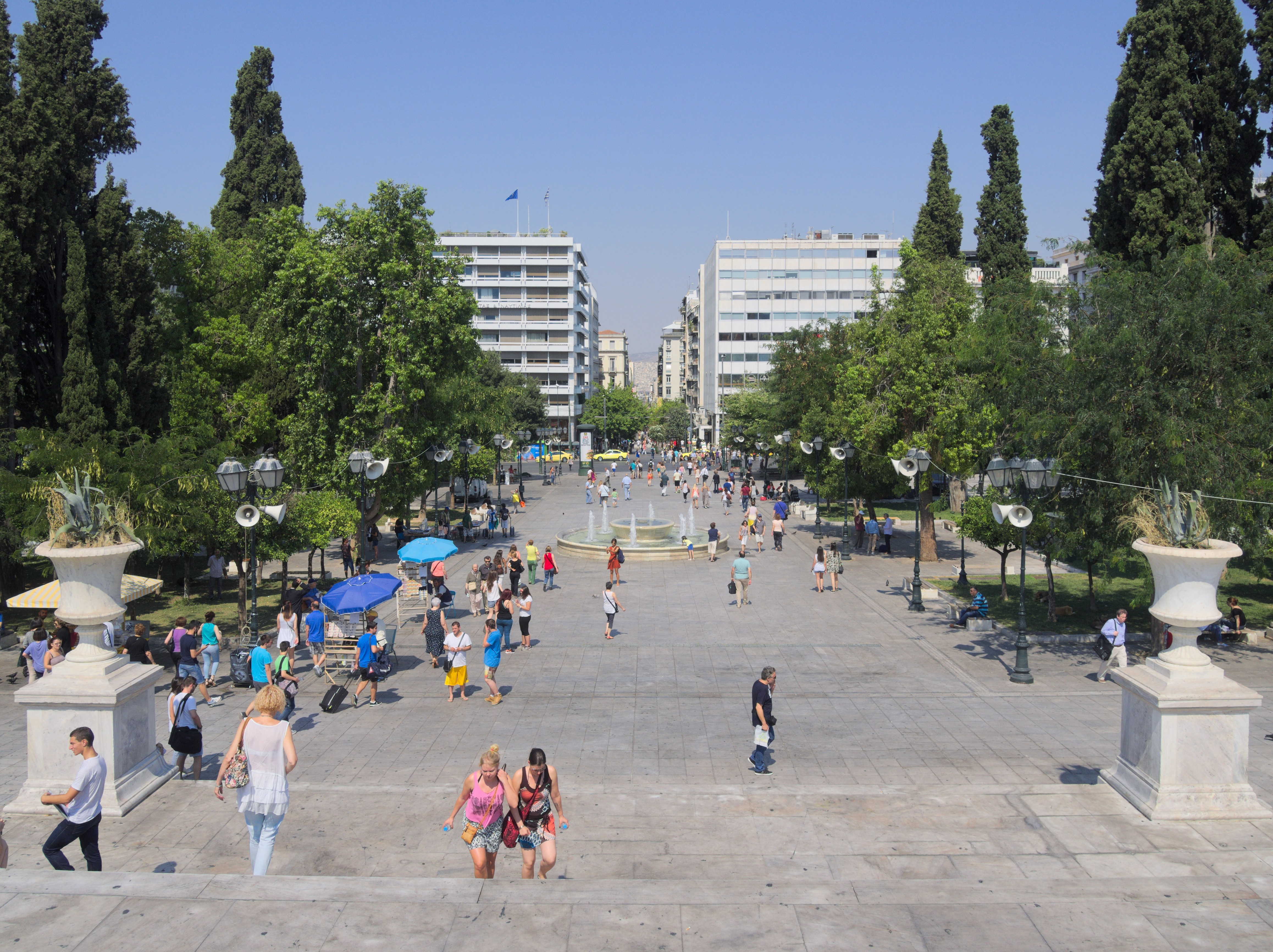 View of Syntagma square, Athens, from the staircase at the east end of the square.